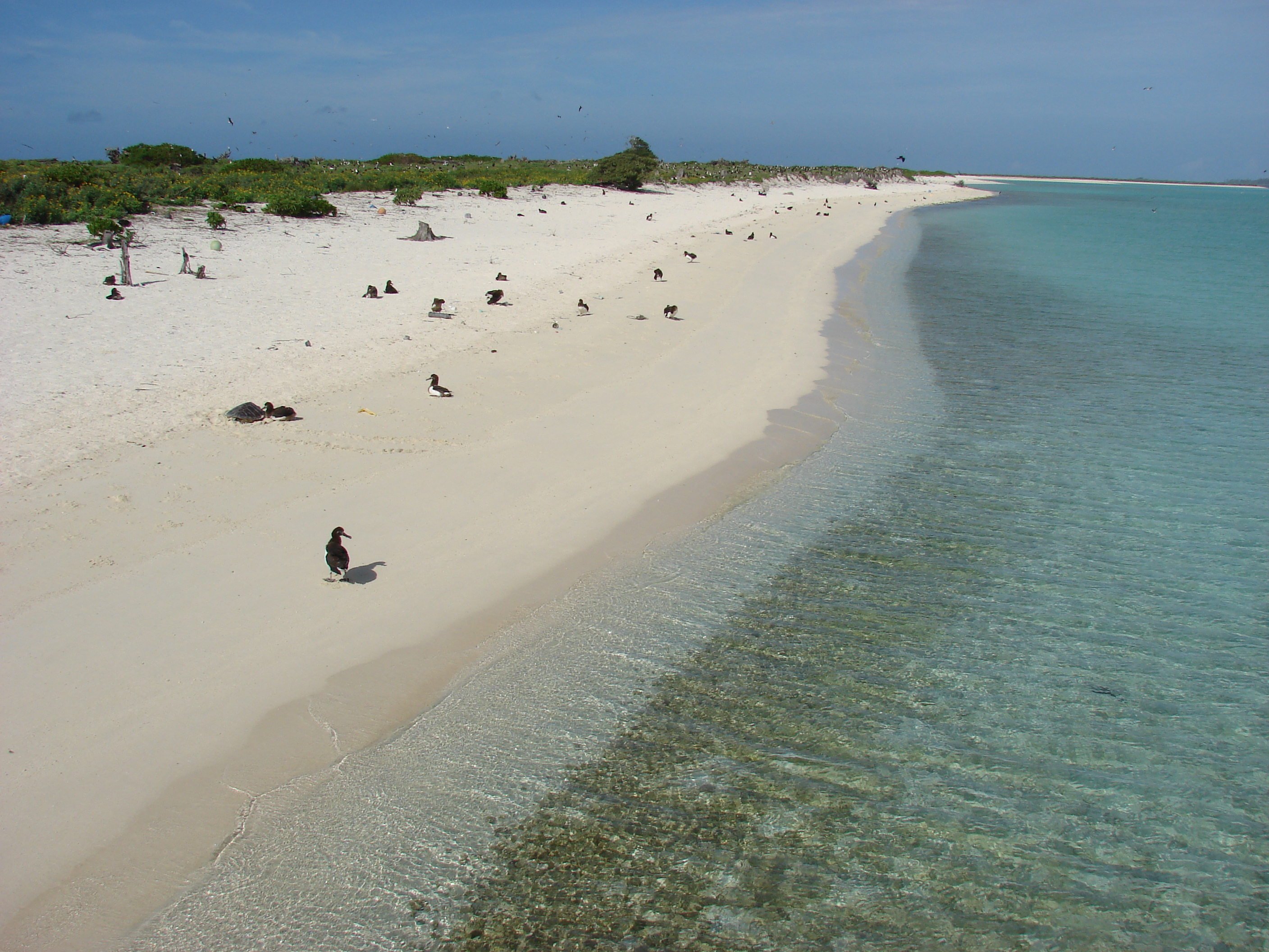 Tournefortia argentea (habit view beach with turtle and Laysan albatross). Location: Midway Atoll, Eastern Island